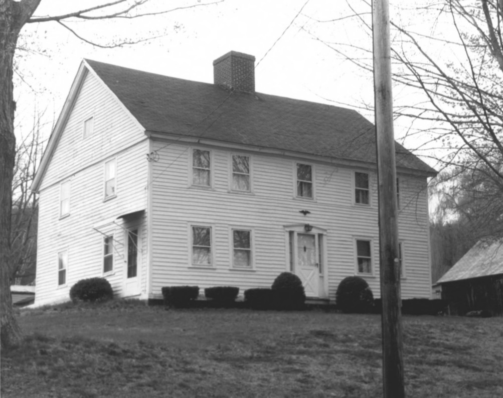 Valentine Wightman House, Southington, Connecticut. This house has been demolished.